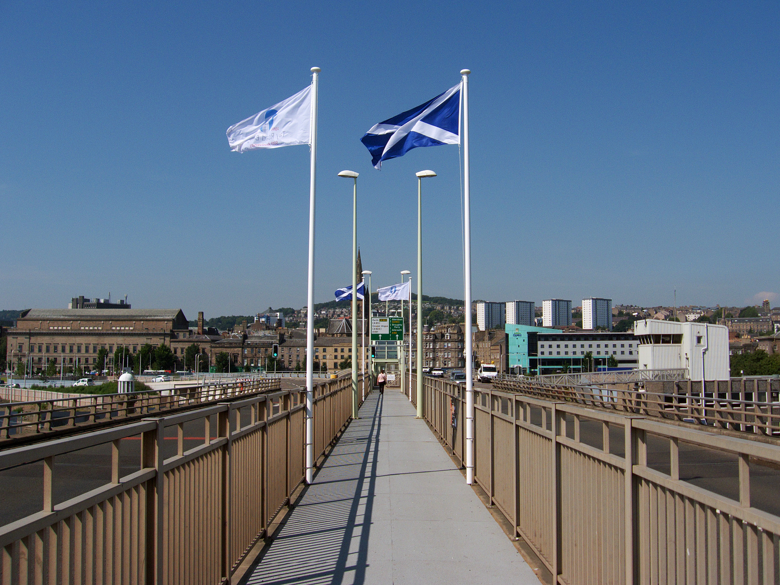 Tay Road Bridge Walkway seen a couple of days before its 50th anniversary. Note commemorative flags.